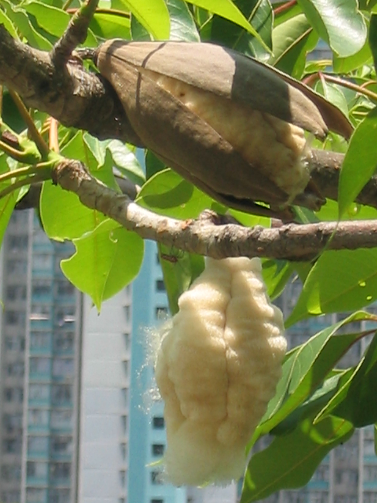 Photo taken by Tomchiukc at Fanling Public School (New Wing), Fanling, Hong Kong. -- Tomchiukc 04:04, 18 May 2006 (UTC)